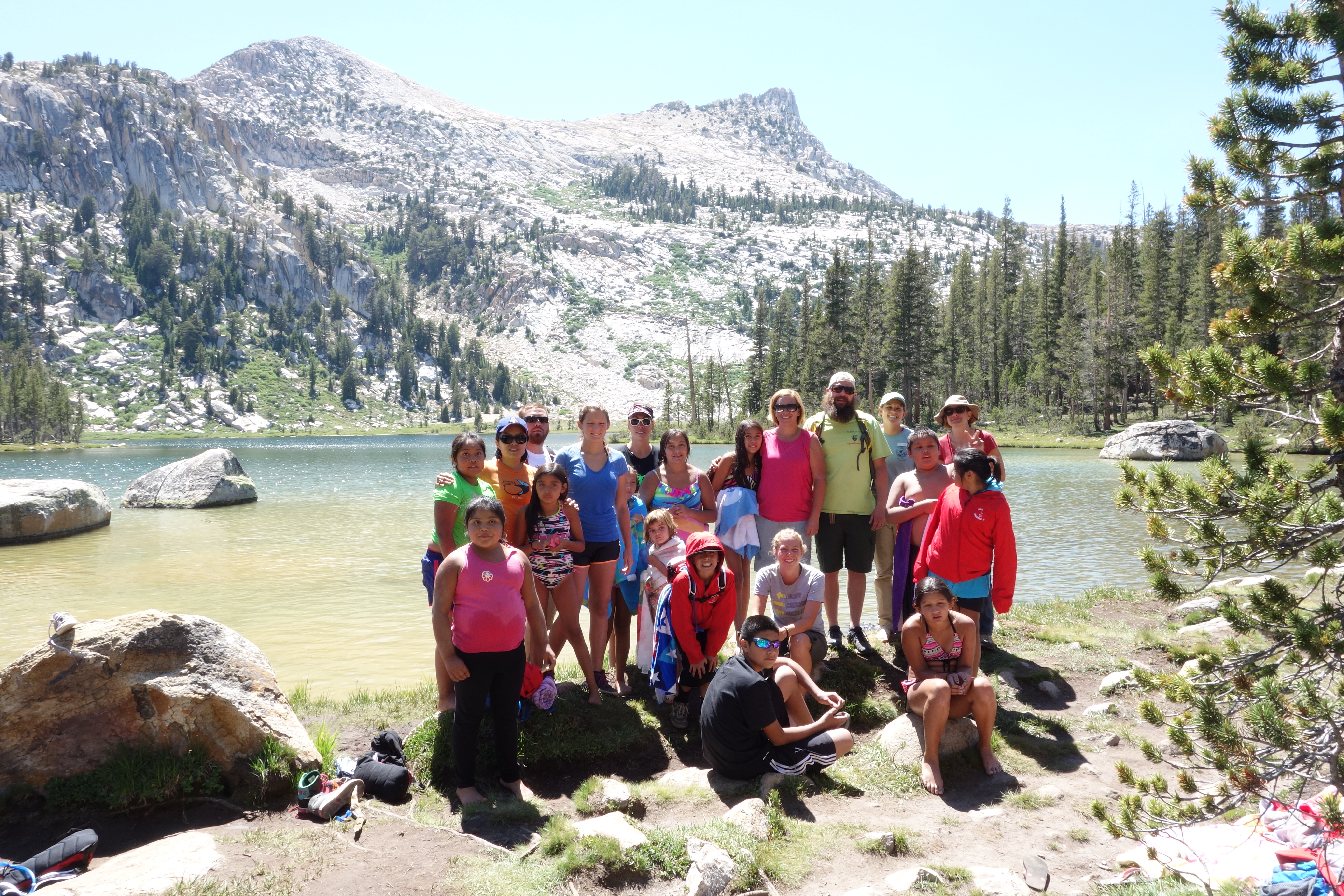 The Bishop Paiute Tribe’s environmental youth program, Firstbloom, attends an annual 3-day campout in Toulumne Meadows, Yosemite National Park. Biologists with USFWS attended the camp to support education in natural resources. The group is pictured at Elizabeth Lake, Yosemite National Park. Photo by USFWS.